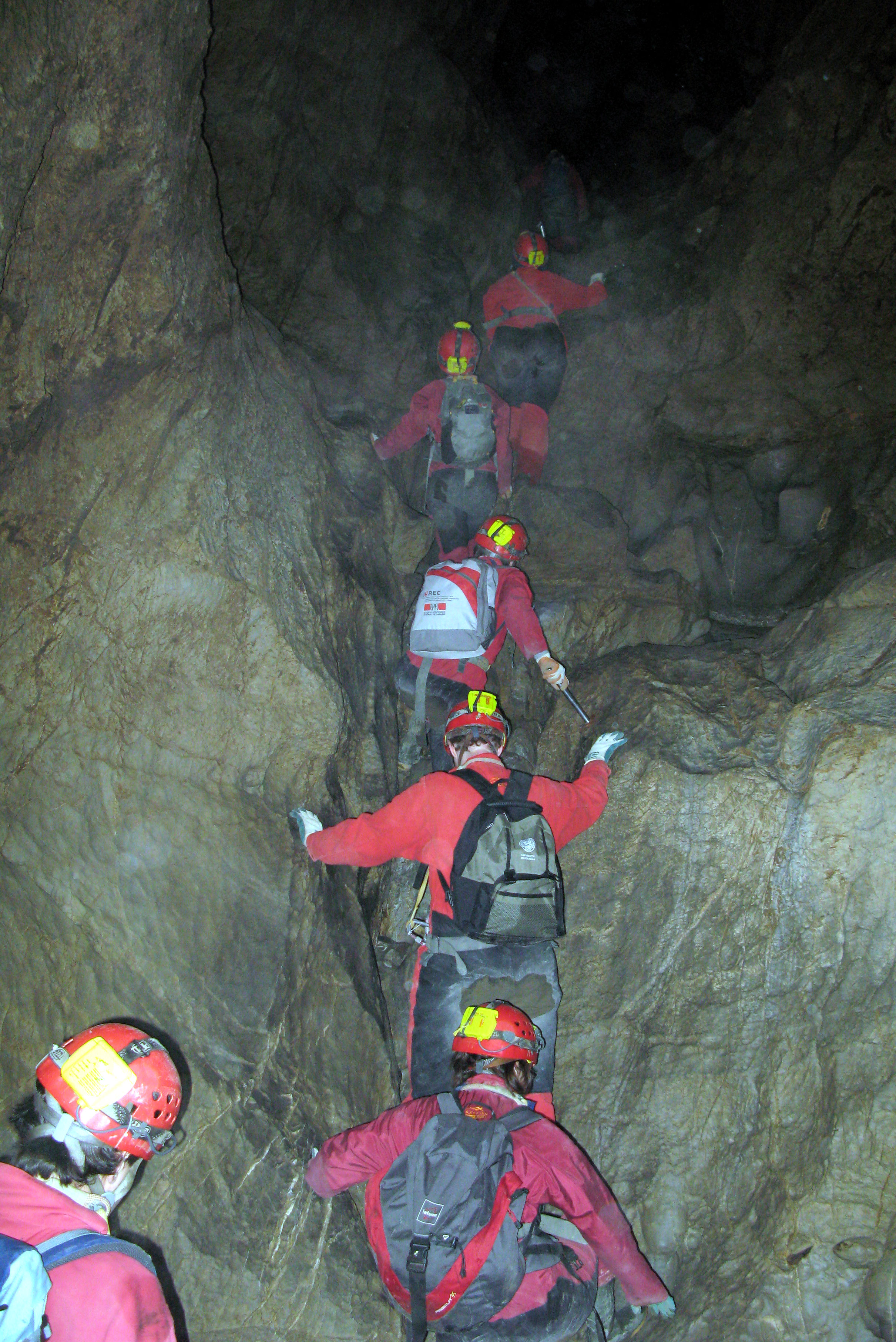 Speleologues in the Hölloch Cave